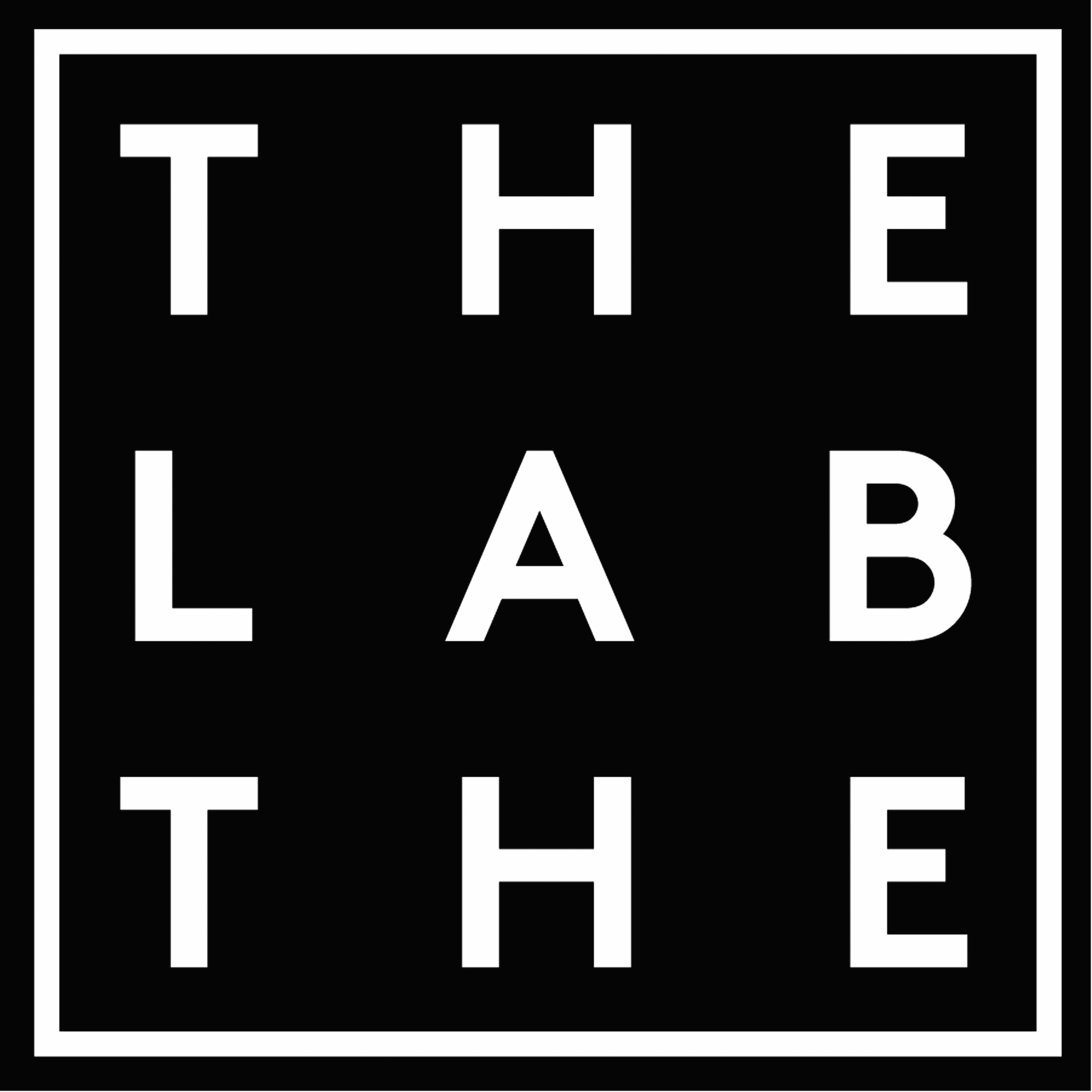 The Lab's logo, created by Colpa Press